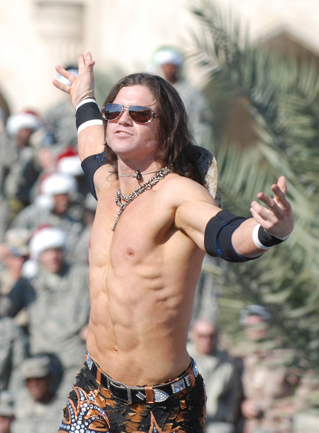 Posted: 12.08.2008 11:11 Photo ID: 134448 VIRIN: Location: BAGHDAD, IQ World Wrestling Entertainment Inc. superstar John Morrison steps in the ring for his wrestling match during the WWE’s Tribute to the Troops as Multi-National Division – Baghdad and 4th Infantry Division Soldiers enjoy the show, which was held in front of the Al Faw Palace on Camp Victory, Dec. 5. The event marks the sixth year in a row that WWE superstars have come to entertain U.S. troops stationed on the front lines in Iraq.